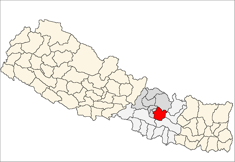 FrenchCarte de localisation dudistrict de Kavrepalanchok(wp-FR),au Népal (wp-FR).EnglishLocation map ofKavrepalanchok District(wp-EN),in Nepal (wp-EN).